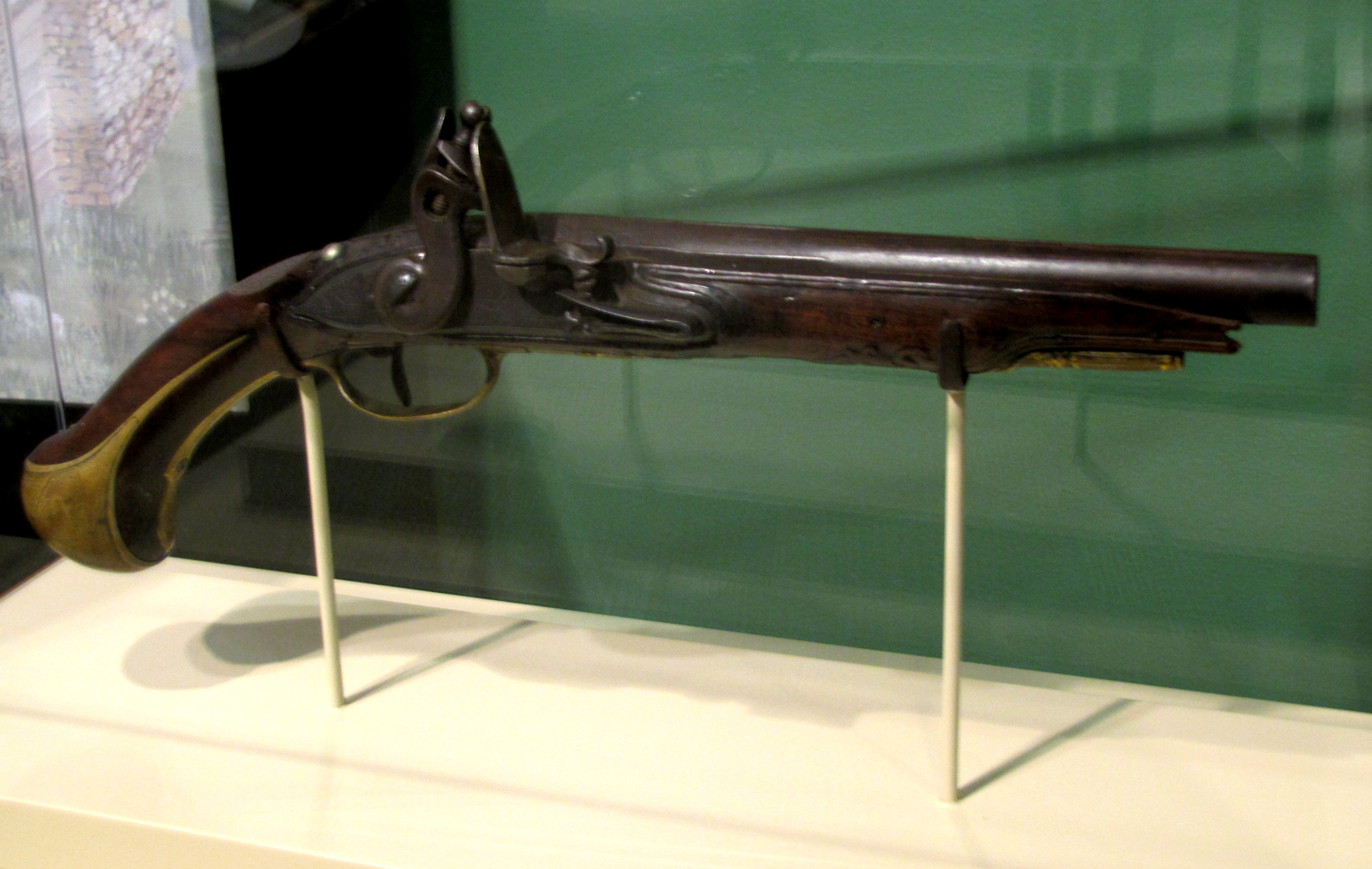 Tennessee Governor John Sevier's presentation pistol, on display at the Center for East Tennessee History in Knoxville, Tennessee, USA.